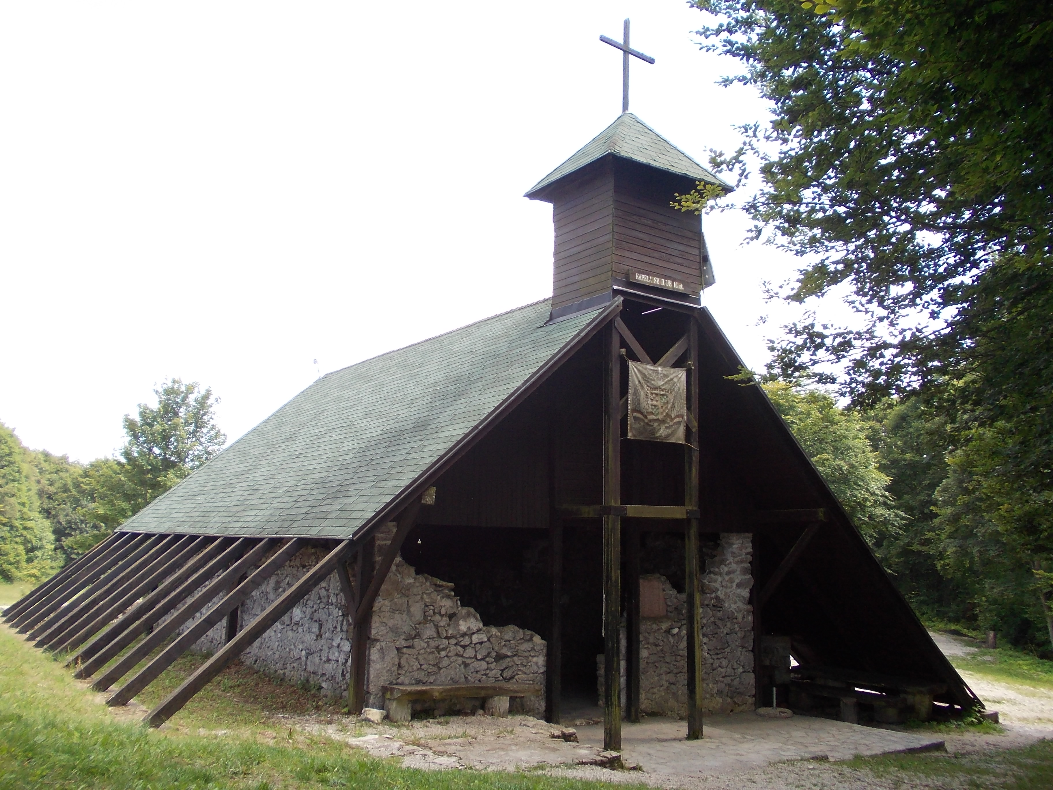 St. Elijah Church (Rajakovići)